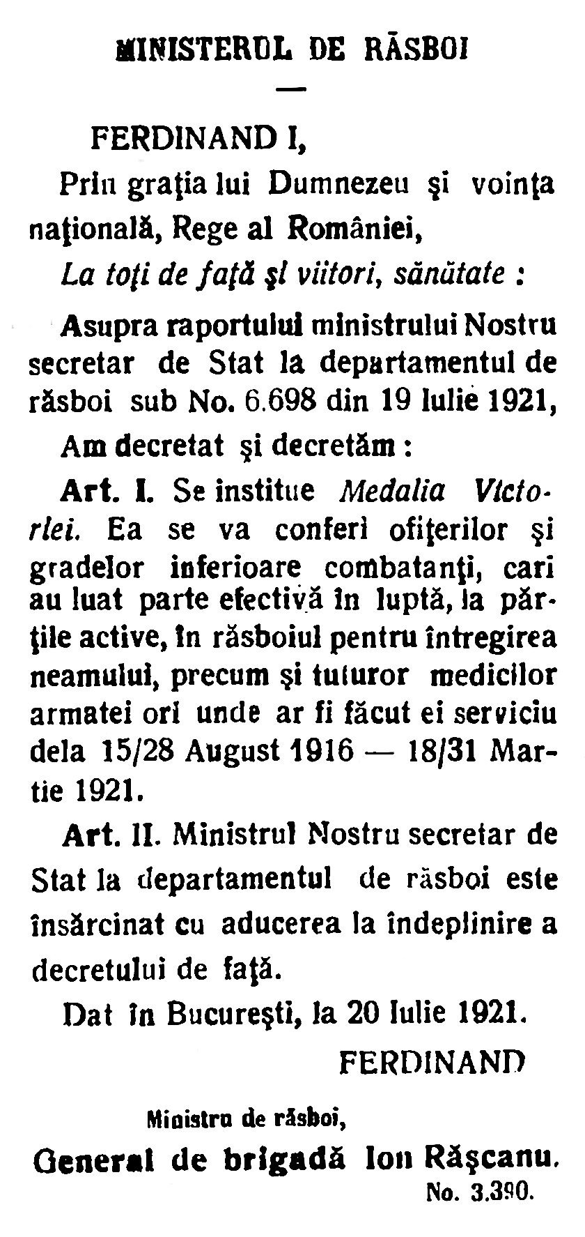 Royal decree for establishing the Victory Medal of Romania,published in "Monitorul Oficial" nr. 121 from 2 September 1921.